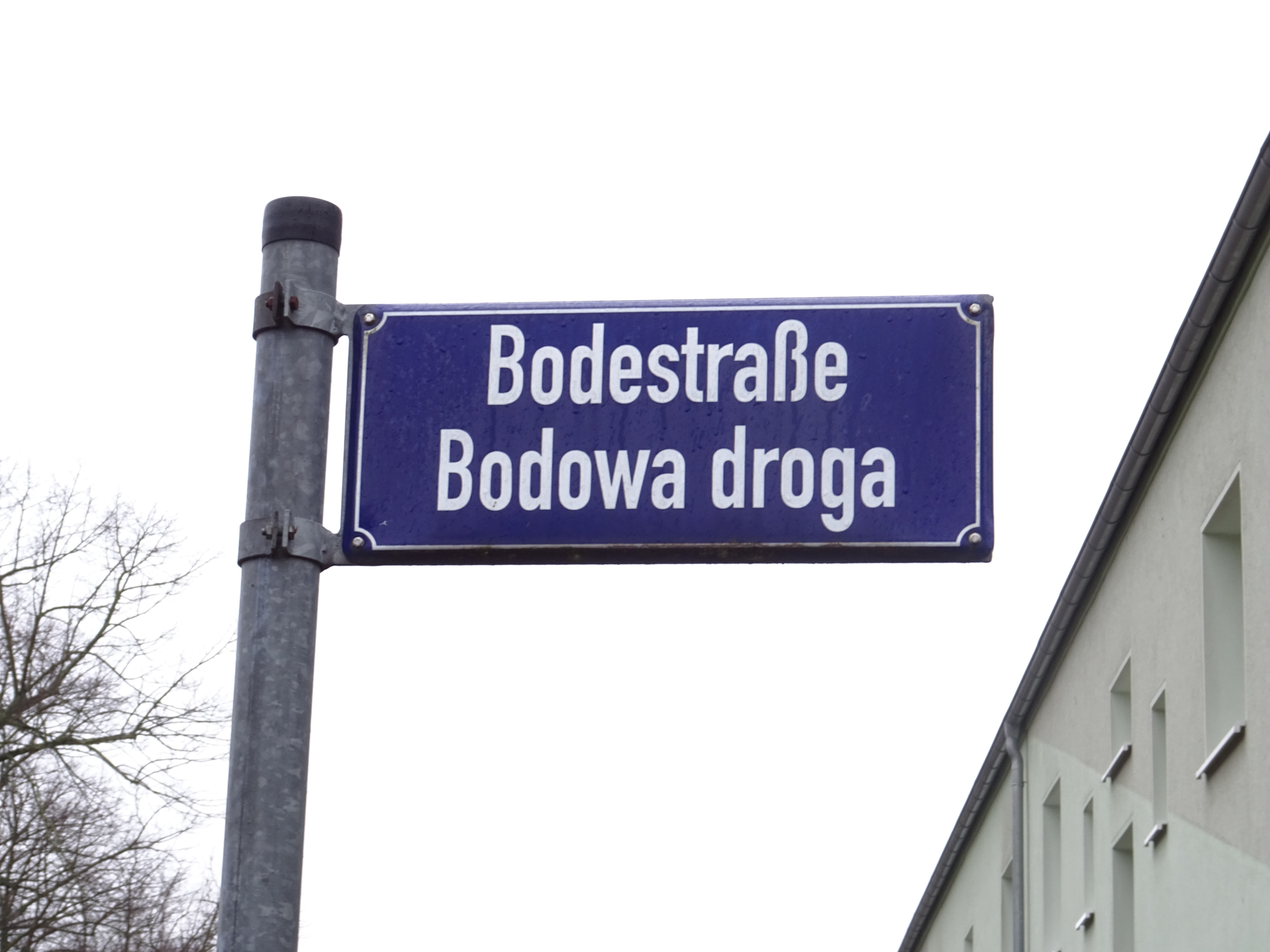 Street sign of Bodestraße in Cottbus